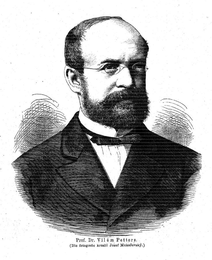 Portrait of Vilém Ignác Petters (1826-1875), Czech professor of medicine.